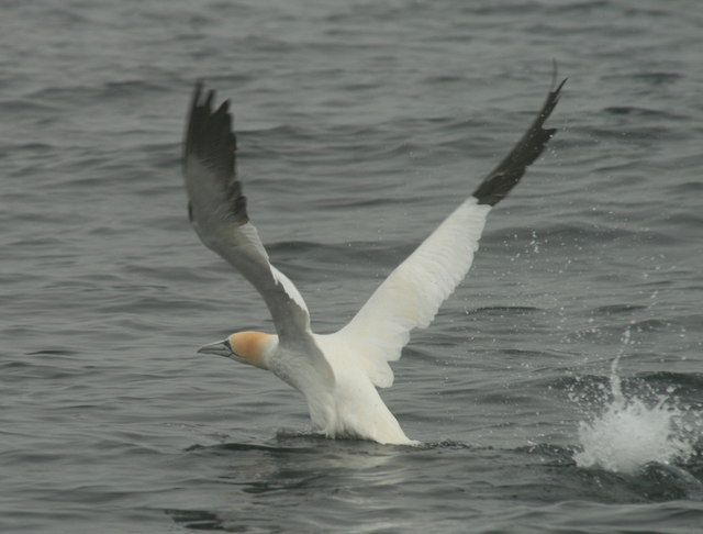 Scramble!! A Gannet begins its take off run. It takes a lot of "fuel" to achieve take off for this huge bird. This is provided for by sand eels, sprats, and Mackerel which are abundant in the summer months.